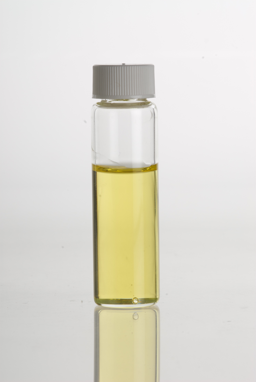 Jojoba (Simmondsia chinensis) Oil in clear glass vial